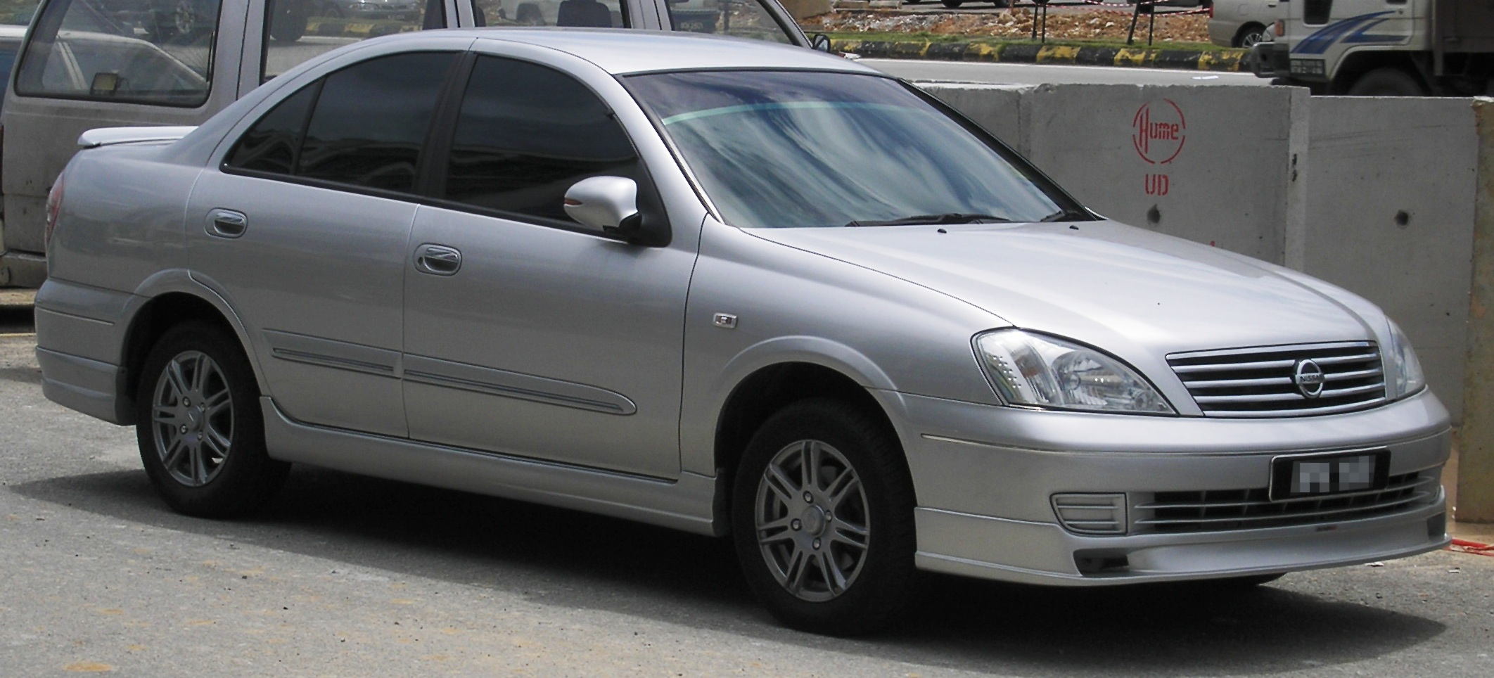 Front-side shot of a first generation, second facelift Nissan Sentra (based on the first generation Bluebird Sylphy/Nissan Pulsar N16), in Serdang, Selangor, Malaysia.